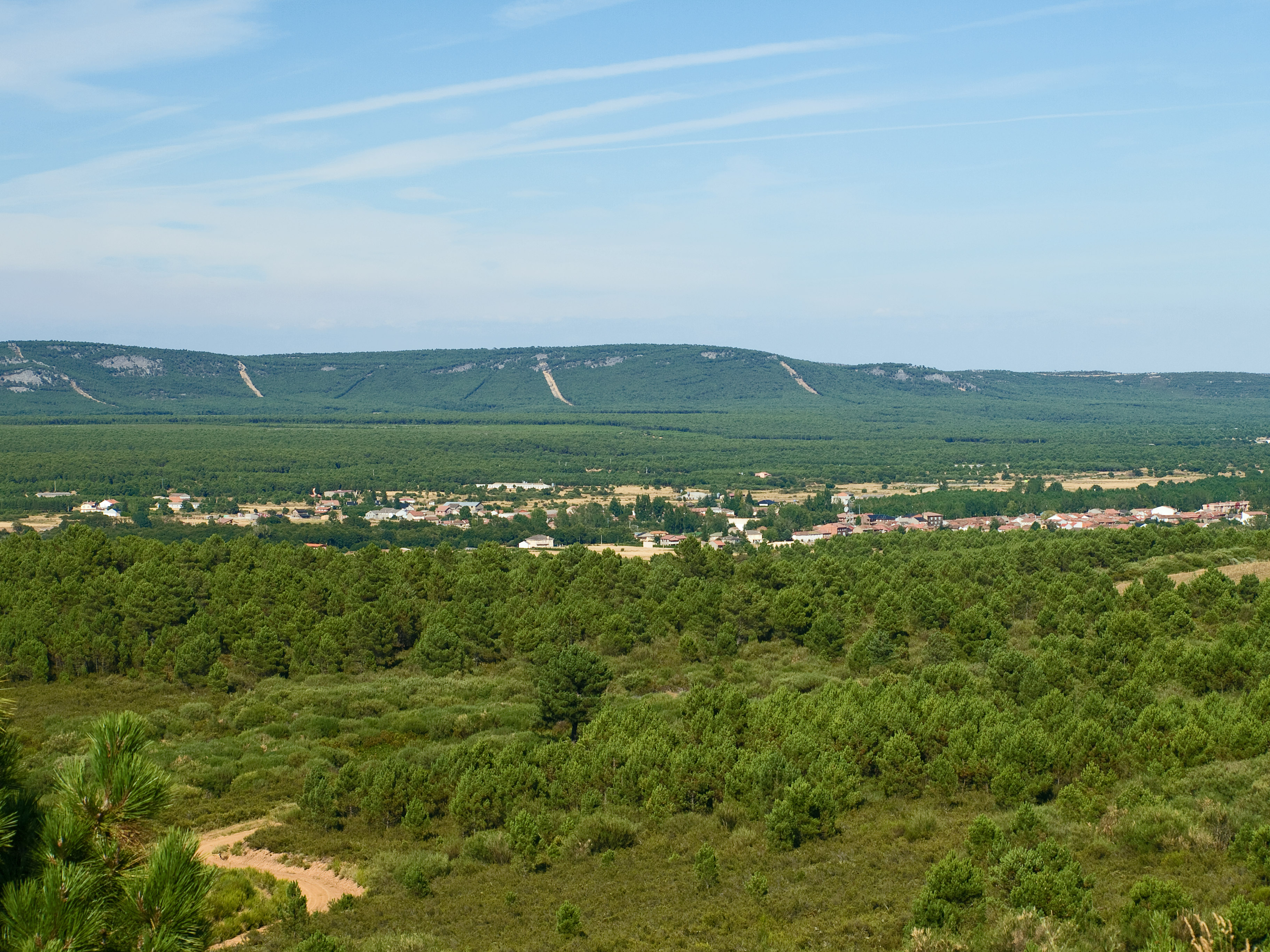 Sight of the spanish town of Castrocontrigo, in the province of León